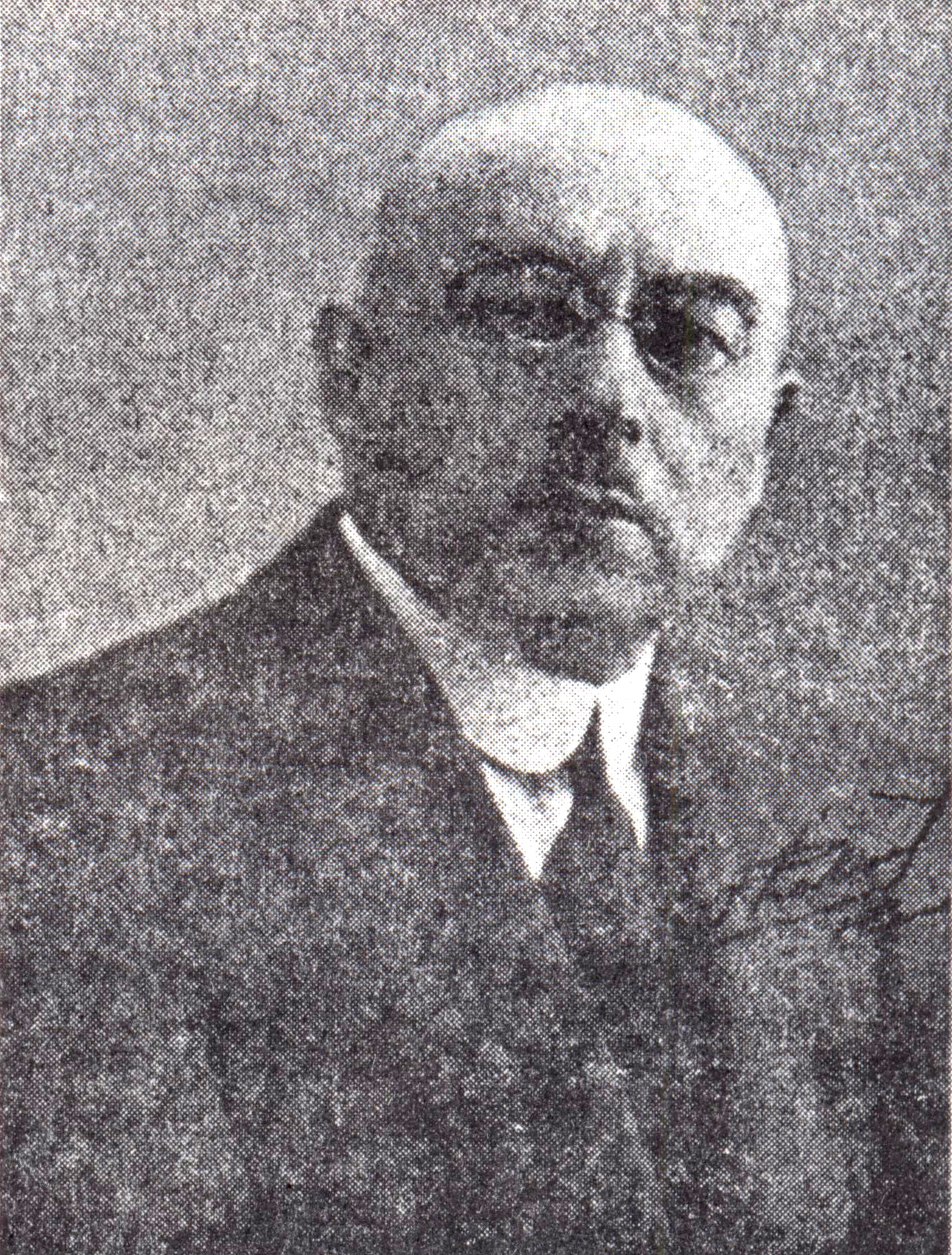 Aleksander Khatisyan, prime-minister of Republic of Armenia in 1919-1920